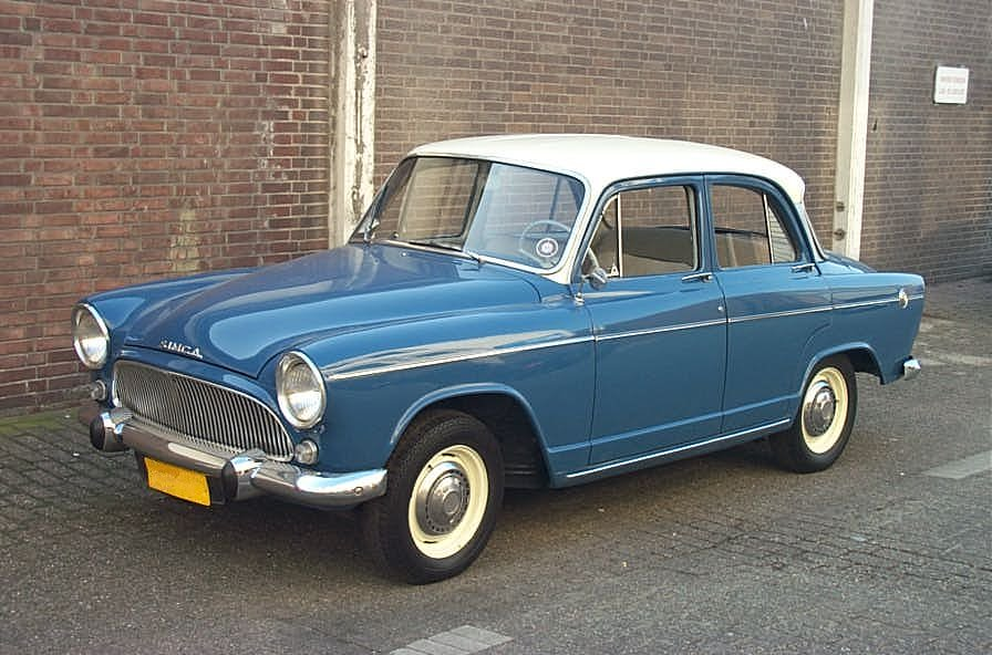 1961 Simca Aronde P60 Elysée, blue with white roof, Rush engine The vehicle was among the many classic cars handled by the Garage de l'Est